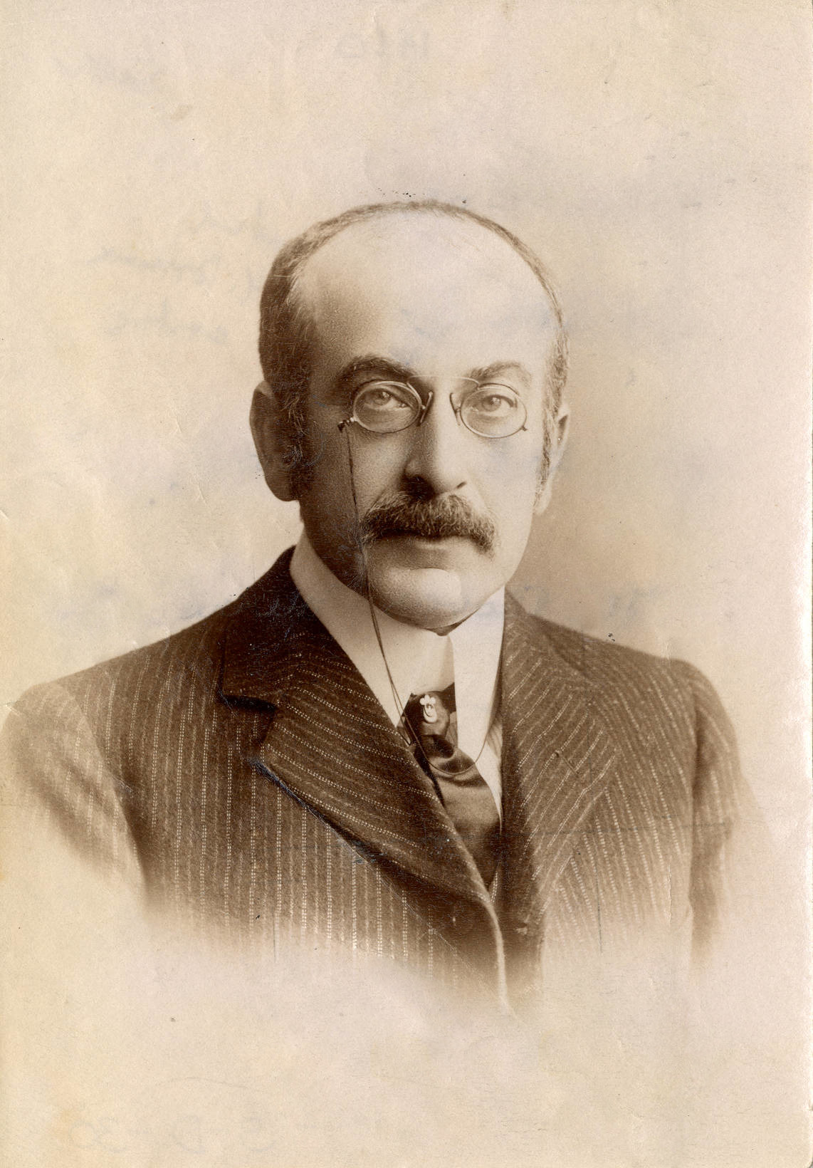 Drama critic Alan Dale. Subjects: miscellaneous